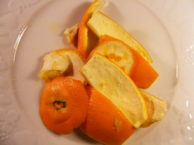 Free Photos – Orange Peel More Photos and Full Size Up to 3072 x 2304 pixels Information Regarding Copyright